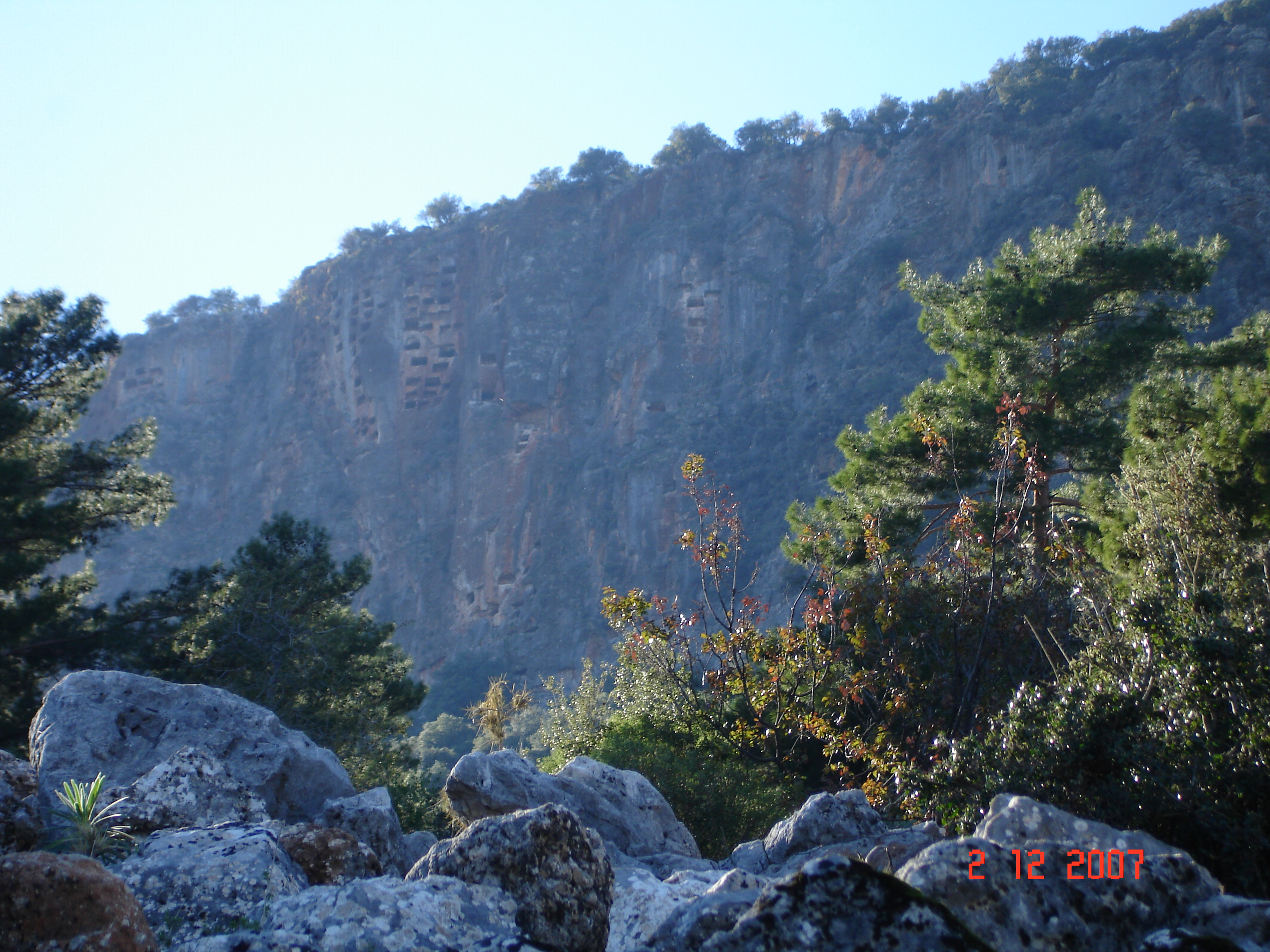 Pinara Ancient Lycian City in Fethiye, Mugla Turkiye